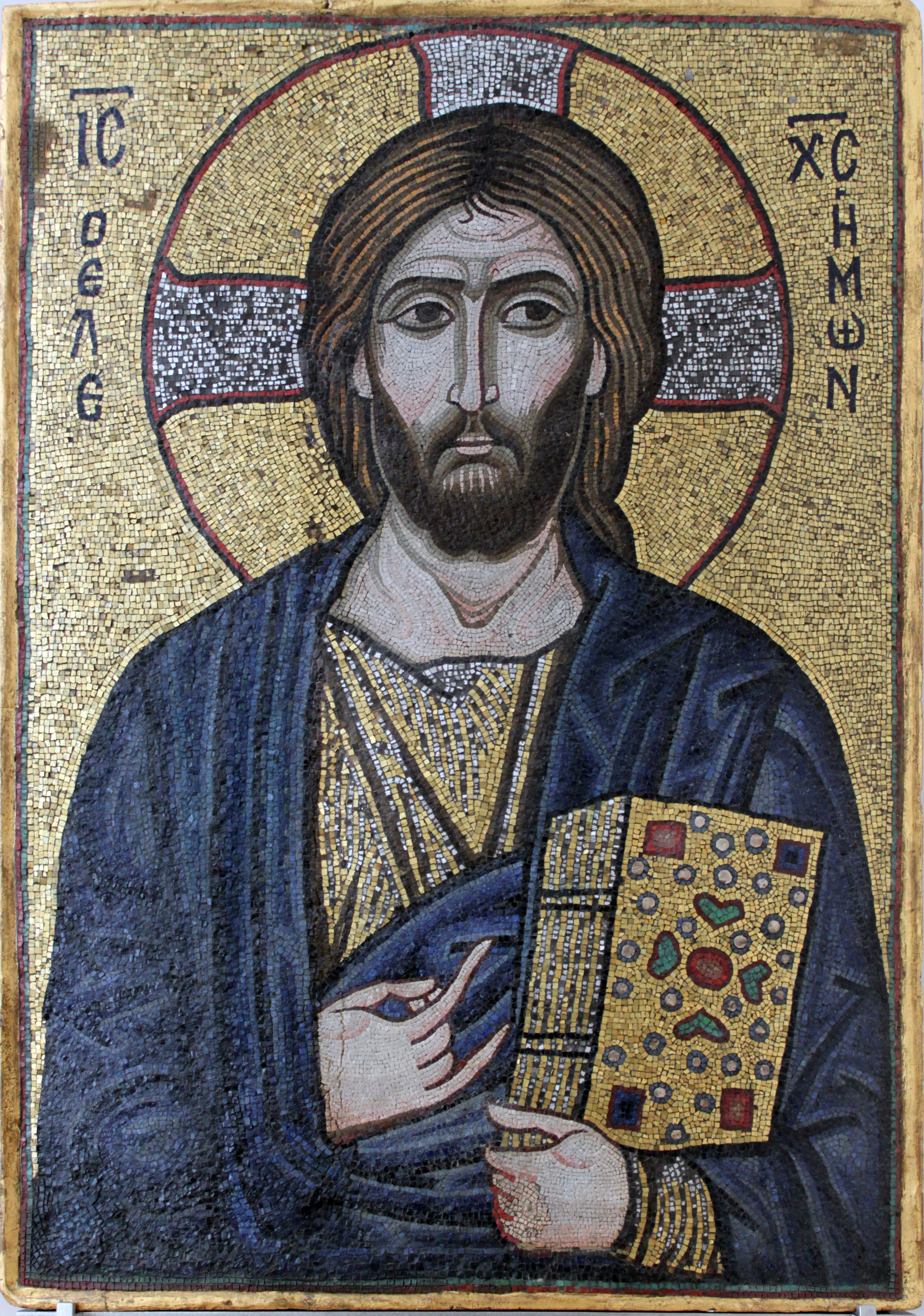 Mosaic Icon with Christ the Merciful; Eastern Roman Empire, 1rst half of 12 Century, Museum of Byzantine Art (inv. 6430), Bode Museum, Berlin